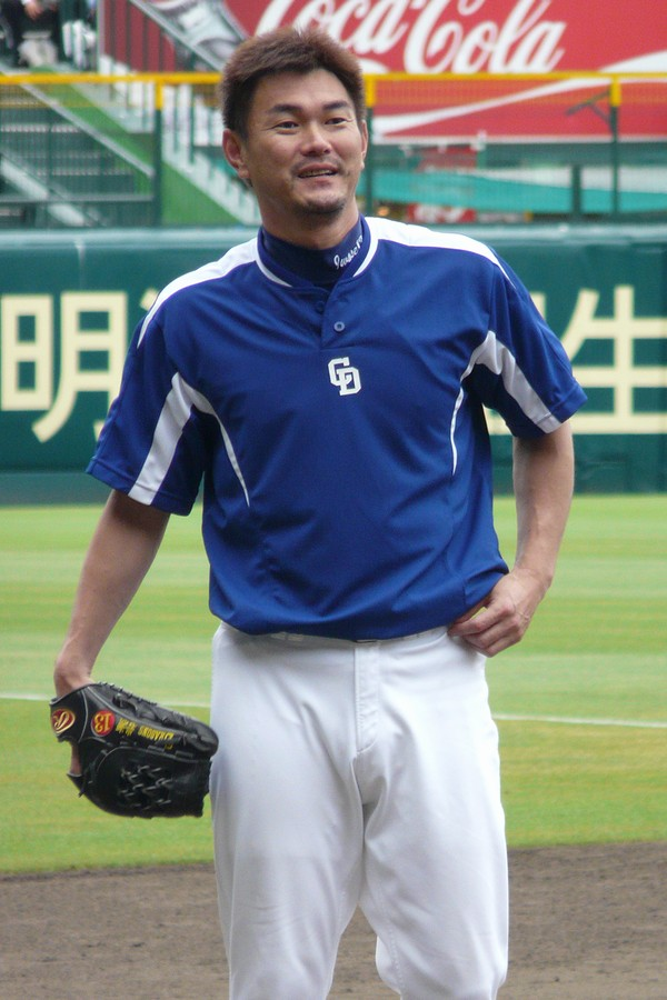 Hitoki Iwase, pitcher of the Chunichi Dragons, at Hanshin Koshien Stadium.